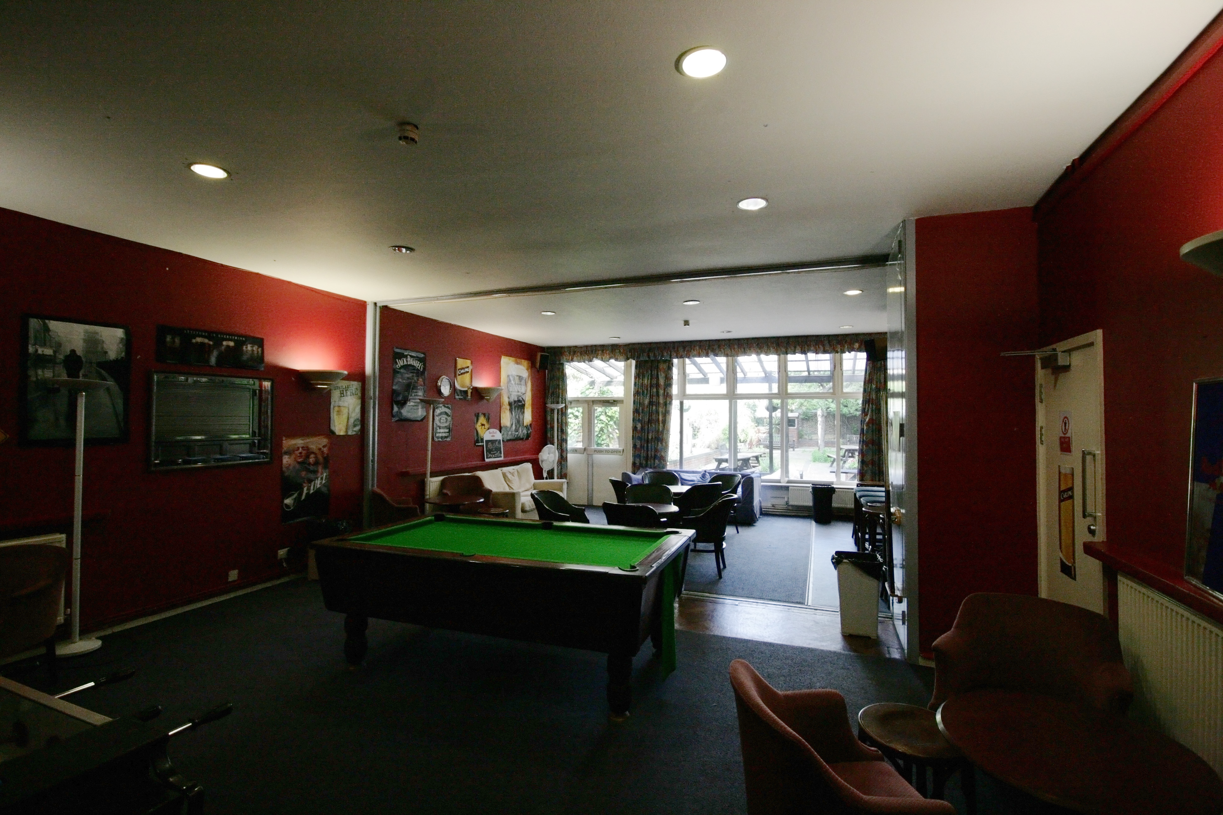 Photography by Dr A. Clark.